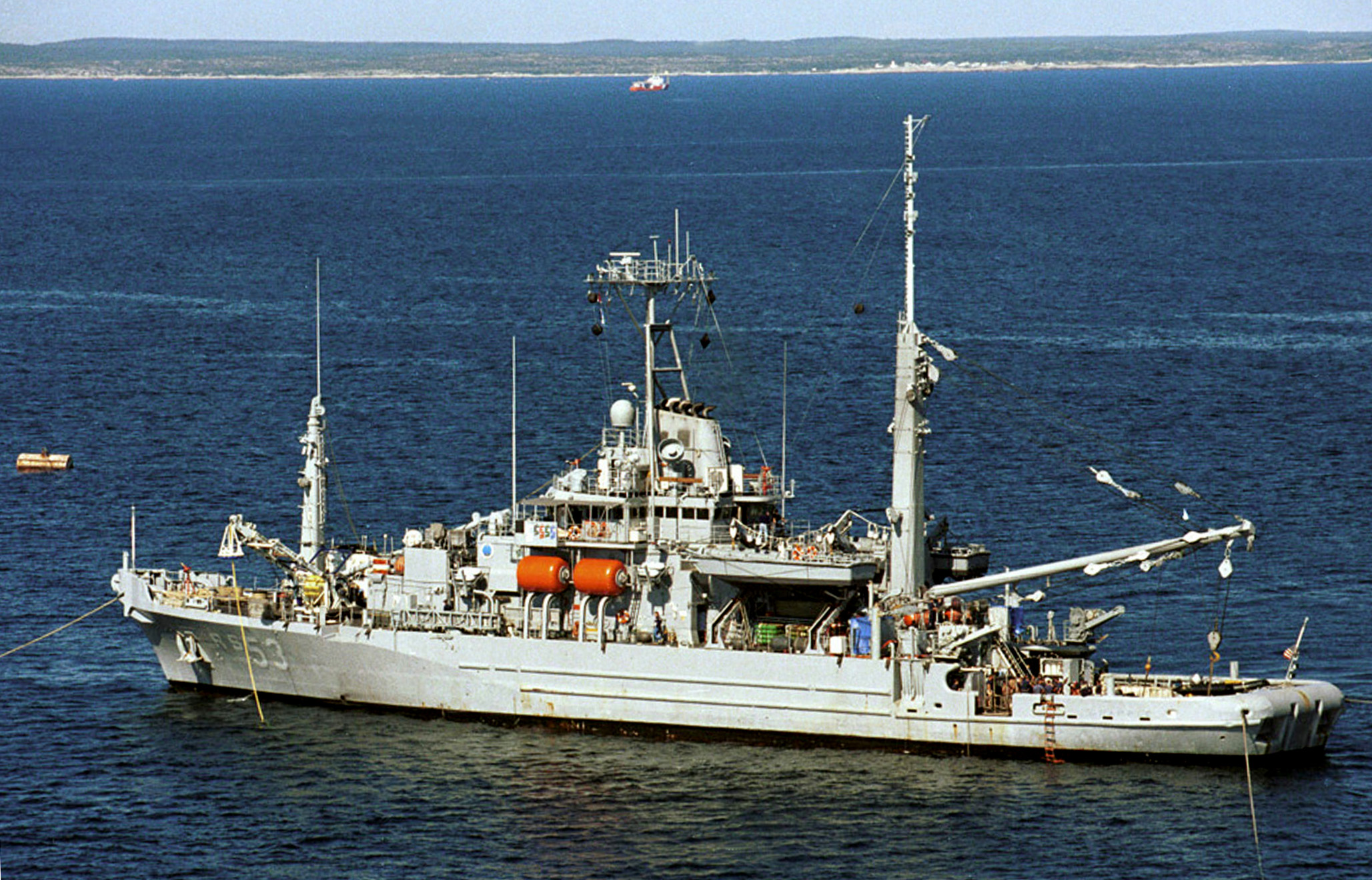 The U.S. Navy fleet support ship USS Grapple (ARS 53) conducts deep drone and diving operations at the crash site of Swissair Flight 111 off the coast of Peggy's Cove, Nova Scotia, on Sept. 14, 1998. U.S. and Canadian forces are working together in the retrieval of victims and aircraft debris from the crash site. Grapple is the U.S. Navy's newest rescue and salvage vessel and can deploy Mobile Underwater Debris Survey System technology, Synthetic Aperture Sonar, and the Laser Electro-Optics Identification System to provide detailed images of the ocean floor.